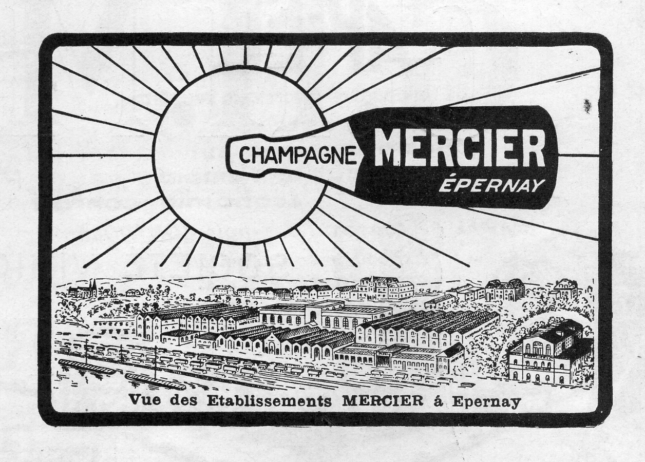 Mercier advertisement of 1923